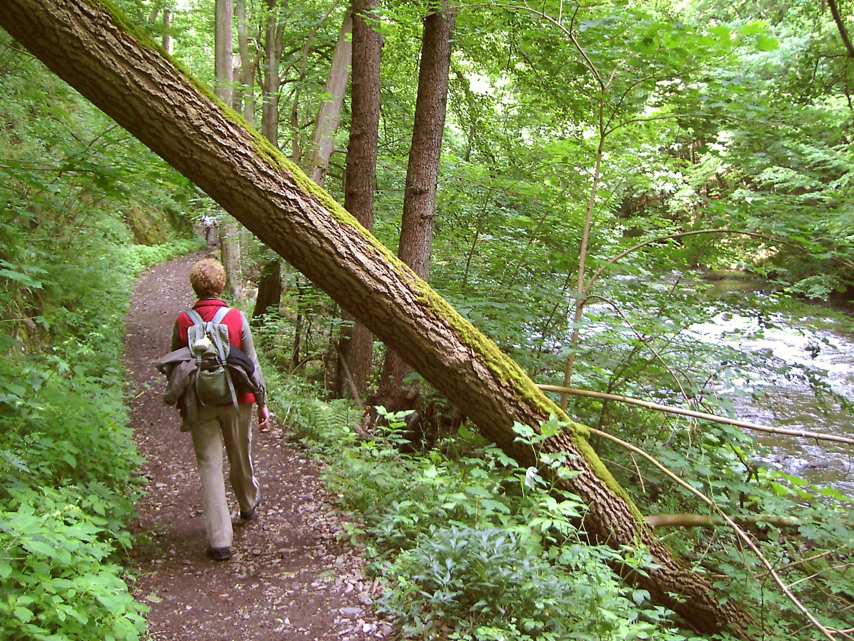 Footpath through the Bode Gorge, Harz mountains, Germany